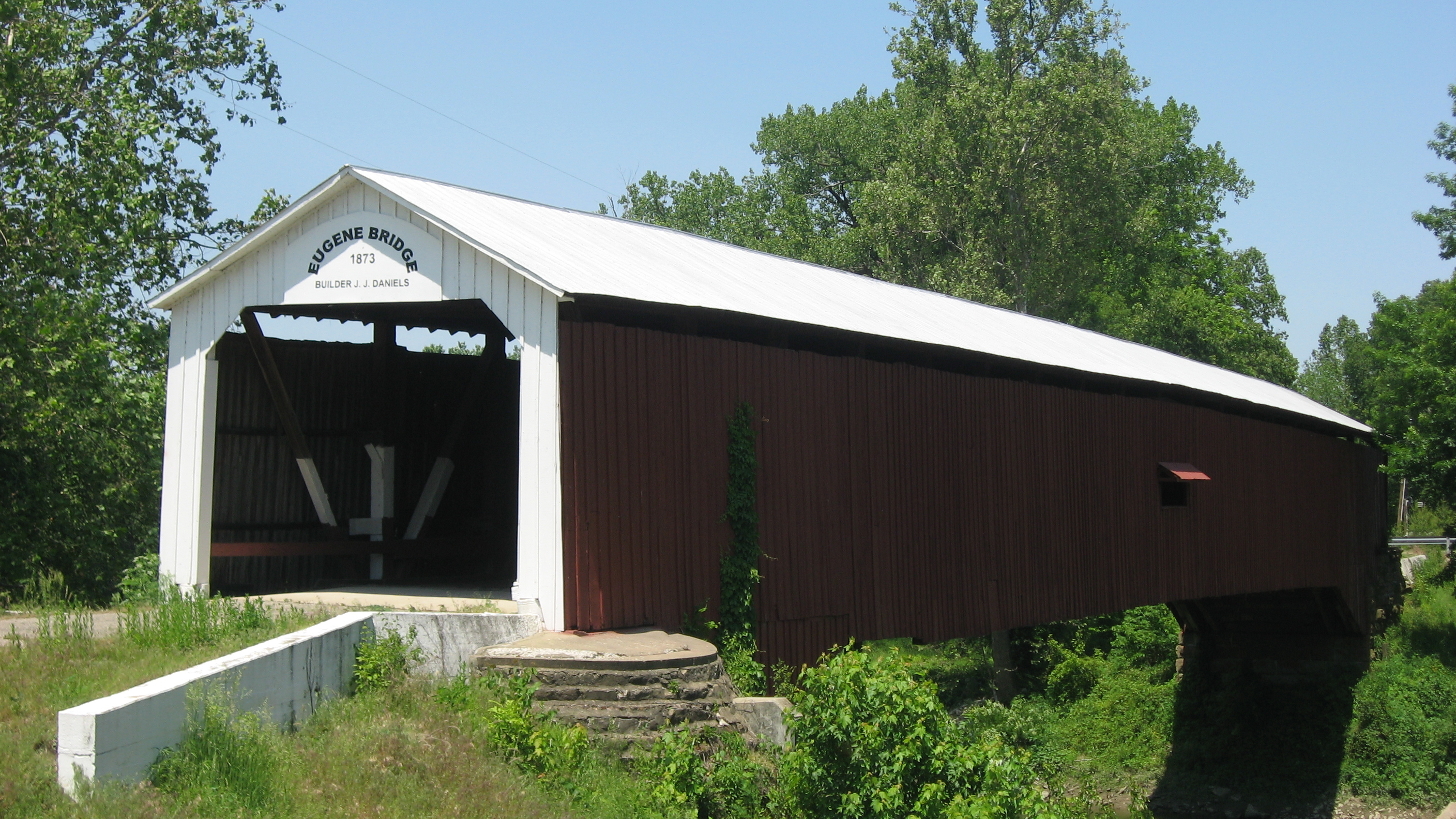 Southern portal and eastern side of the Eugene Covered Bridge, which formerly carried County Road 0 over the Vermilion River at Eugene in Eugene Township, Vermillion County, Indiana, United States. Built in 1873, it is listed on the National Register of Historic Places.